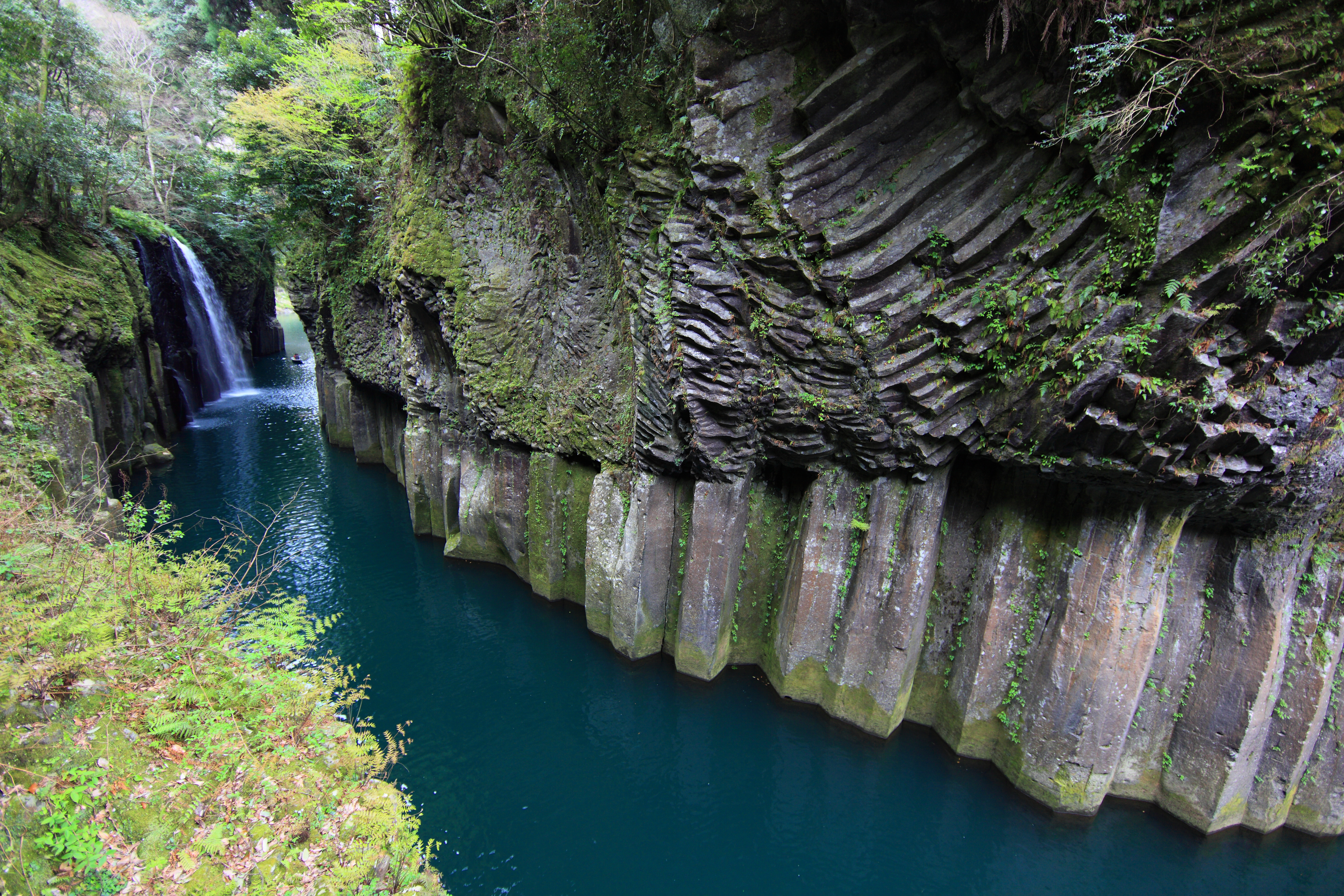 Takachiho-kyo(Gorge), Nishi-Usuki-gun(County) Miyazaki-ken(Prefecture), Japan